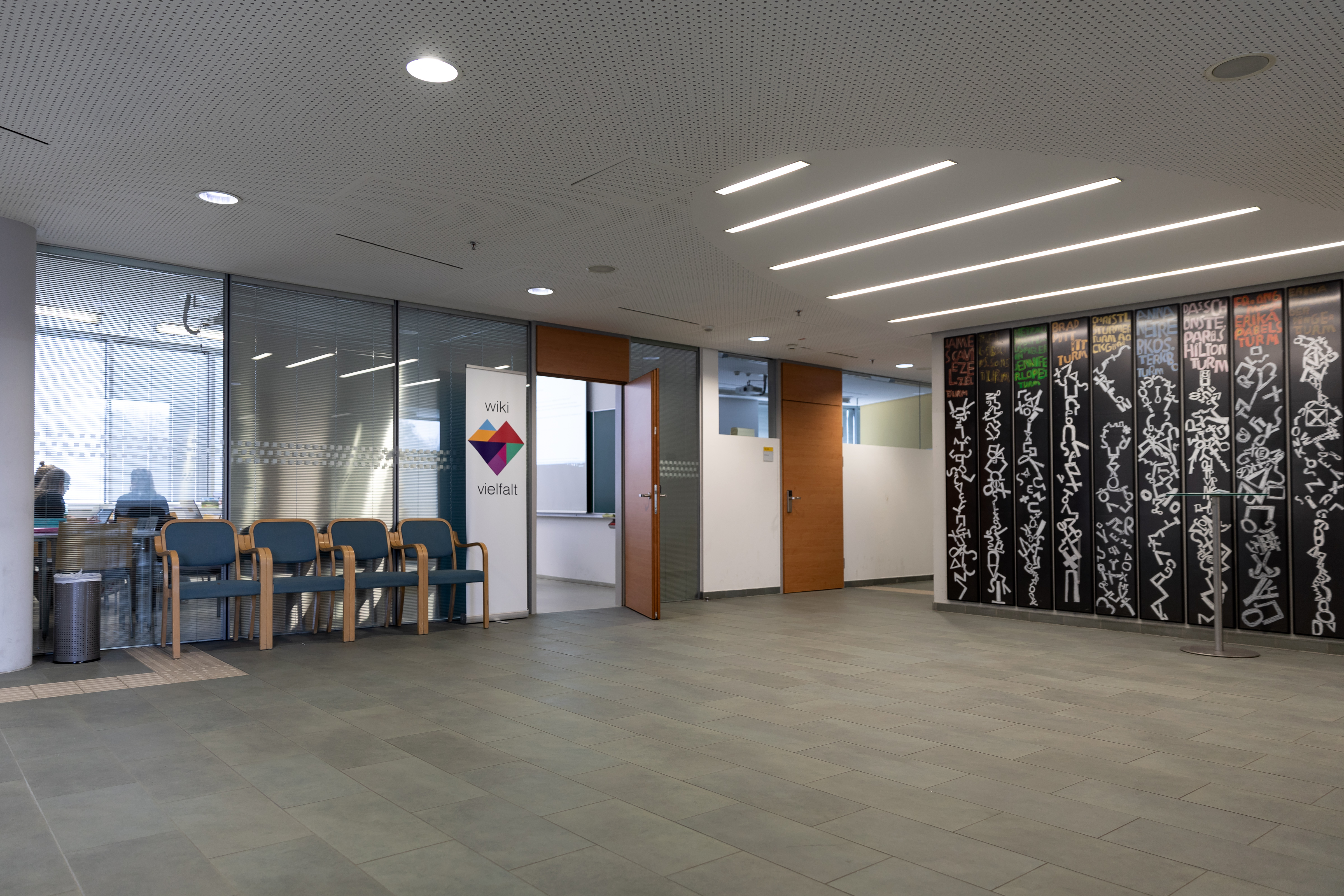 Wiki♥Vielfalt (Edit-a-thon and meeting) at Wissensturm in Linz, Austria.